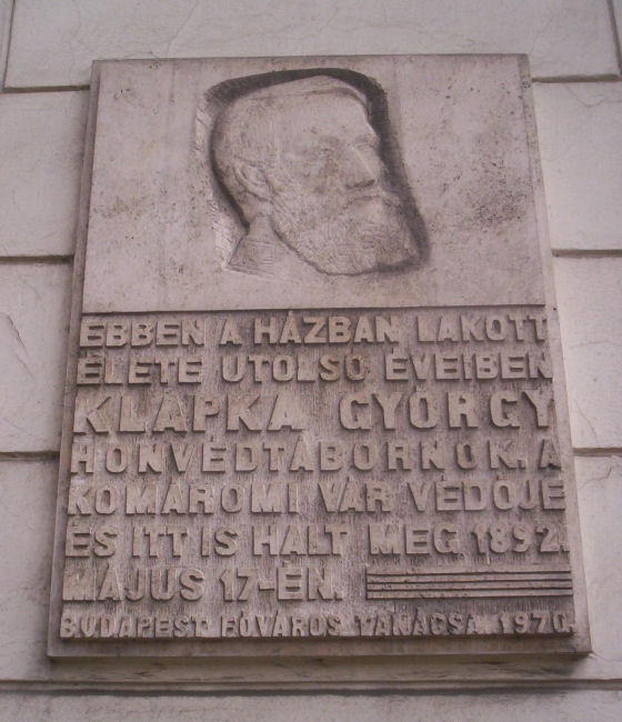 György Klapka commemorative plaque in Budapest District V, Akadémia Street No 1. Creator: Ferenc Kovács (sculptor).